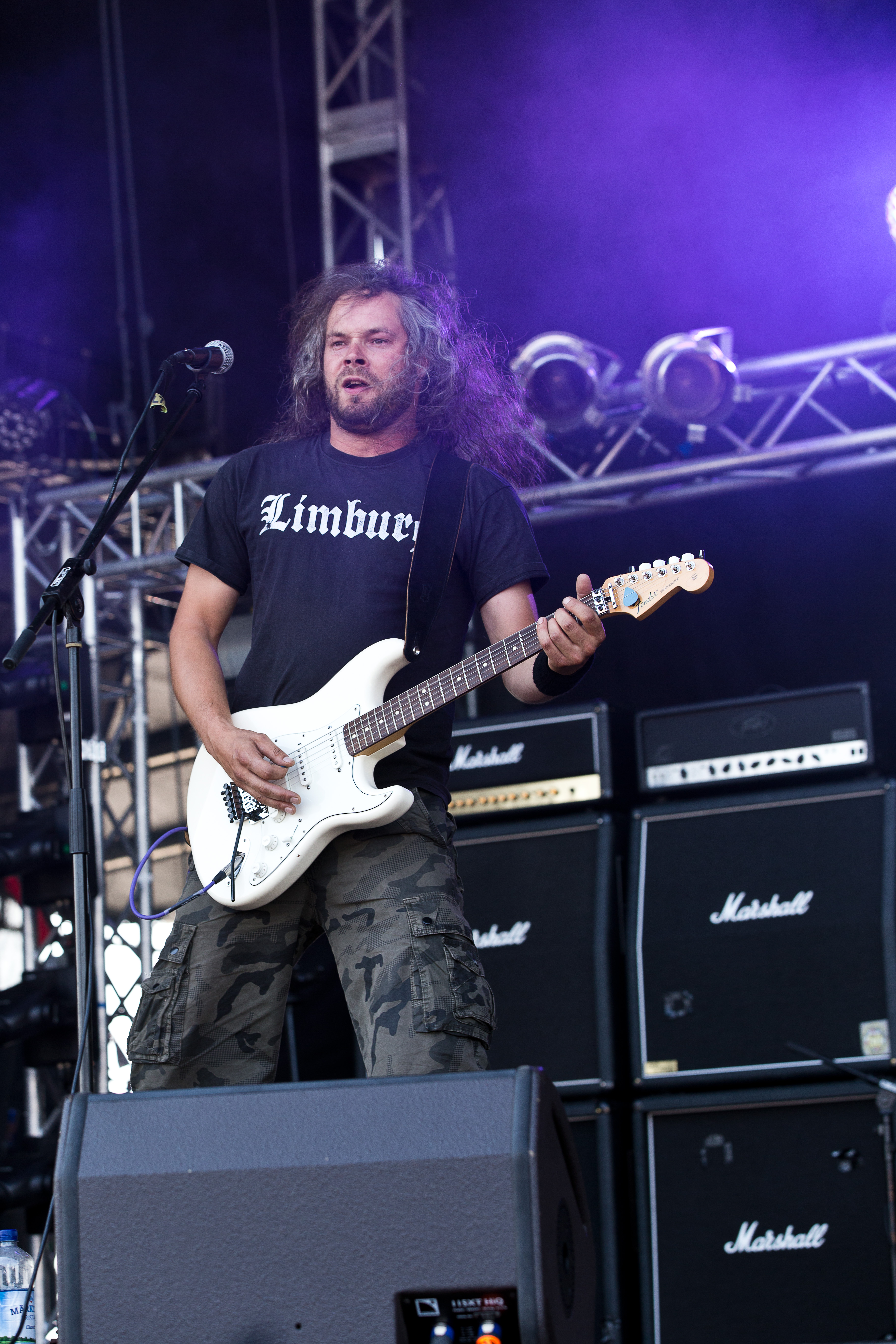 The Dutch grindcore band Cliteater at the Party.San Open Air 2015 in Obermehler-Schlotheim/Germany.